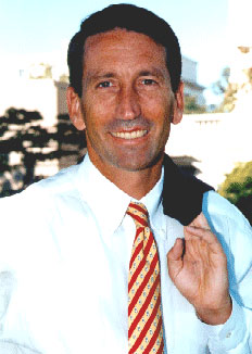 Mark Sanford, Governor of South Carolina, seen here as a U.S. Congressman.